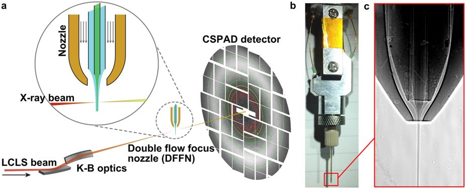 Experimental setup for a typical SFX experiment at X-ray Free Electron Lasers (XFELs) using a gas dynamic virtual nozzle (GDVN) for sample delivery. Parts (b) and (c) show details about the sample delivery system.